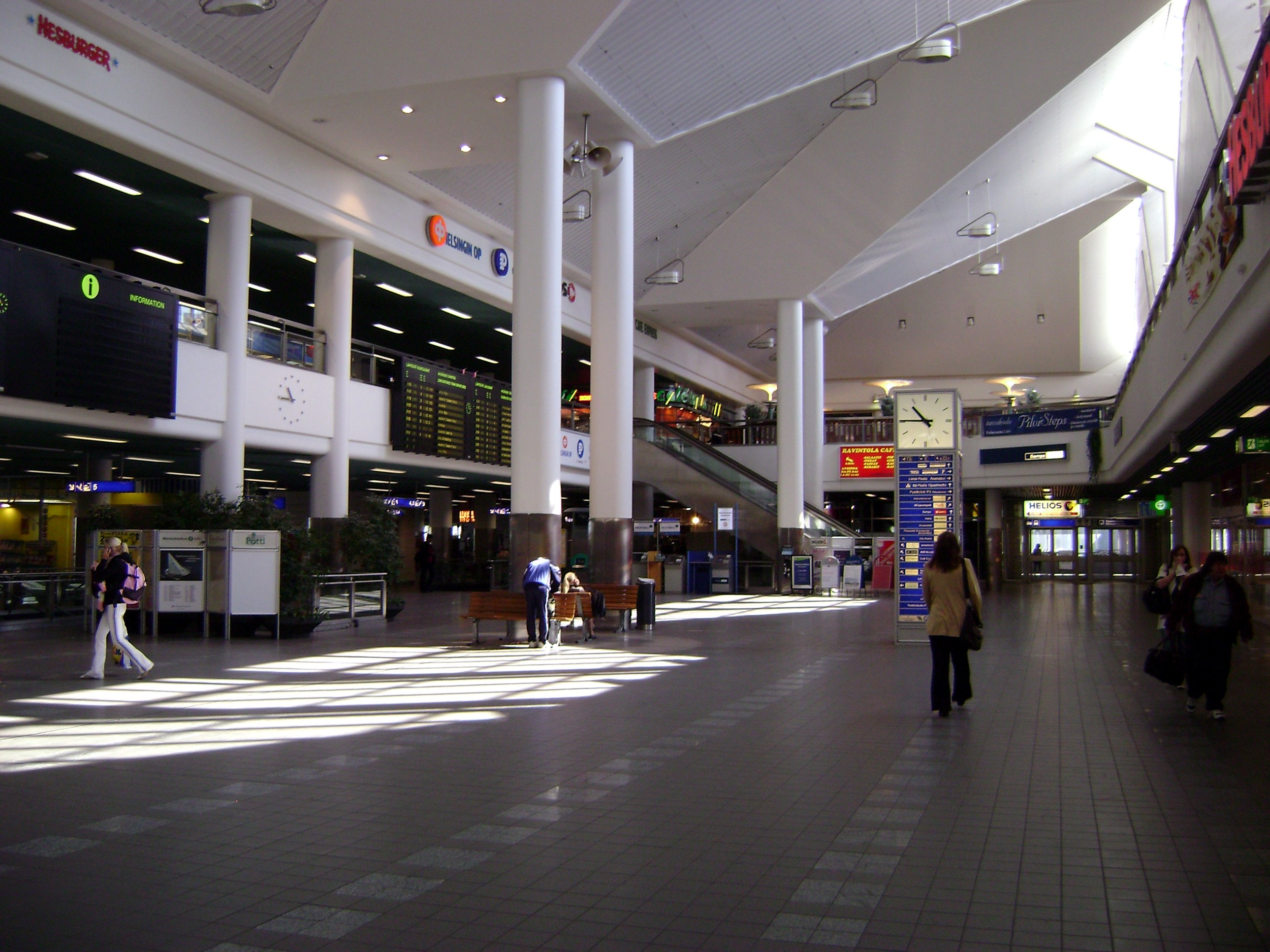 Station hall of Pasila railway station in Helsinki.